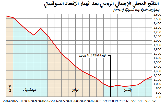 Russian economy since fall of the Soviet Union (2008 international dollars)